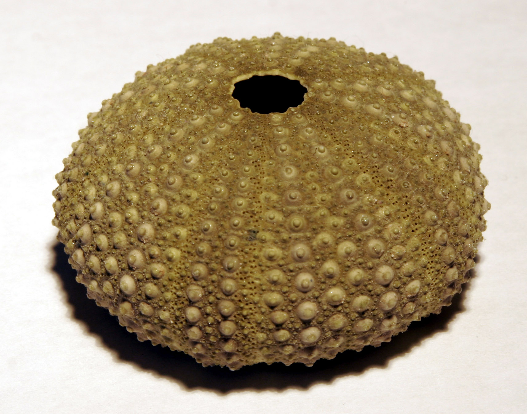 Echinodermata skeleton